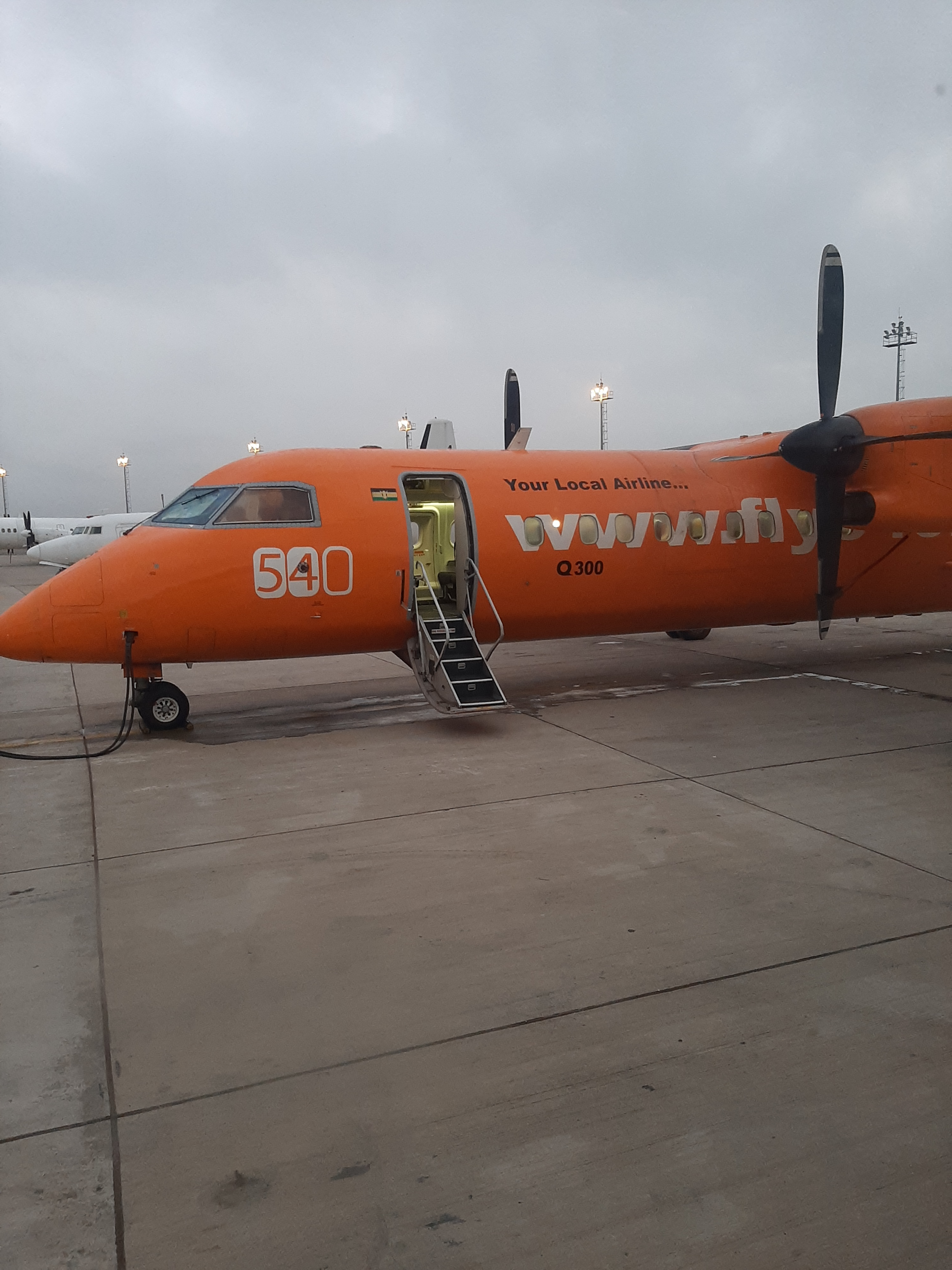 A Fly540 plane is ready to take off, shot here at boarding at the Jomo Kenyatta International Airport in Nairobi, Kenya. This is an image with the theme "Africa on the Move or Transport" from: Kenya